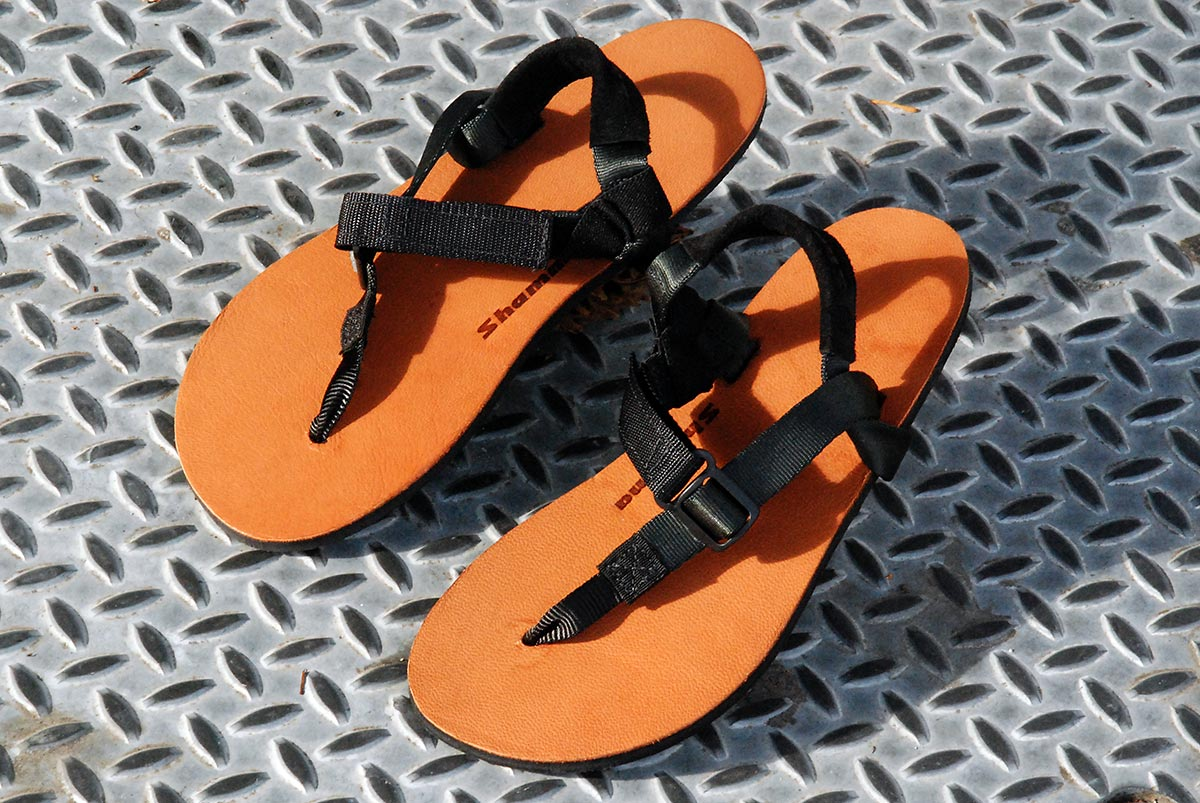 A pair of Jerusalem Cruisers, a minimalist running sandal made by Shamma Sandals.